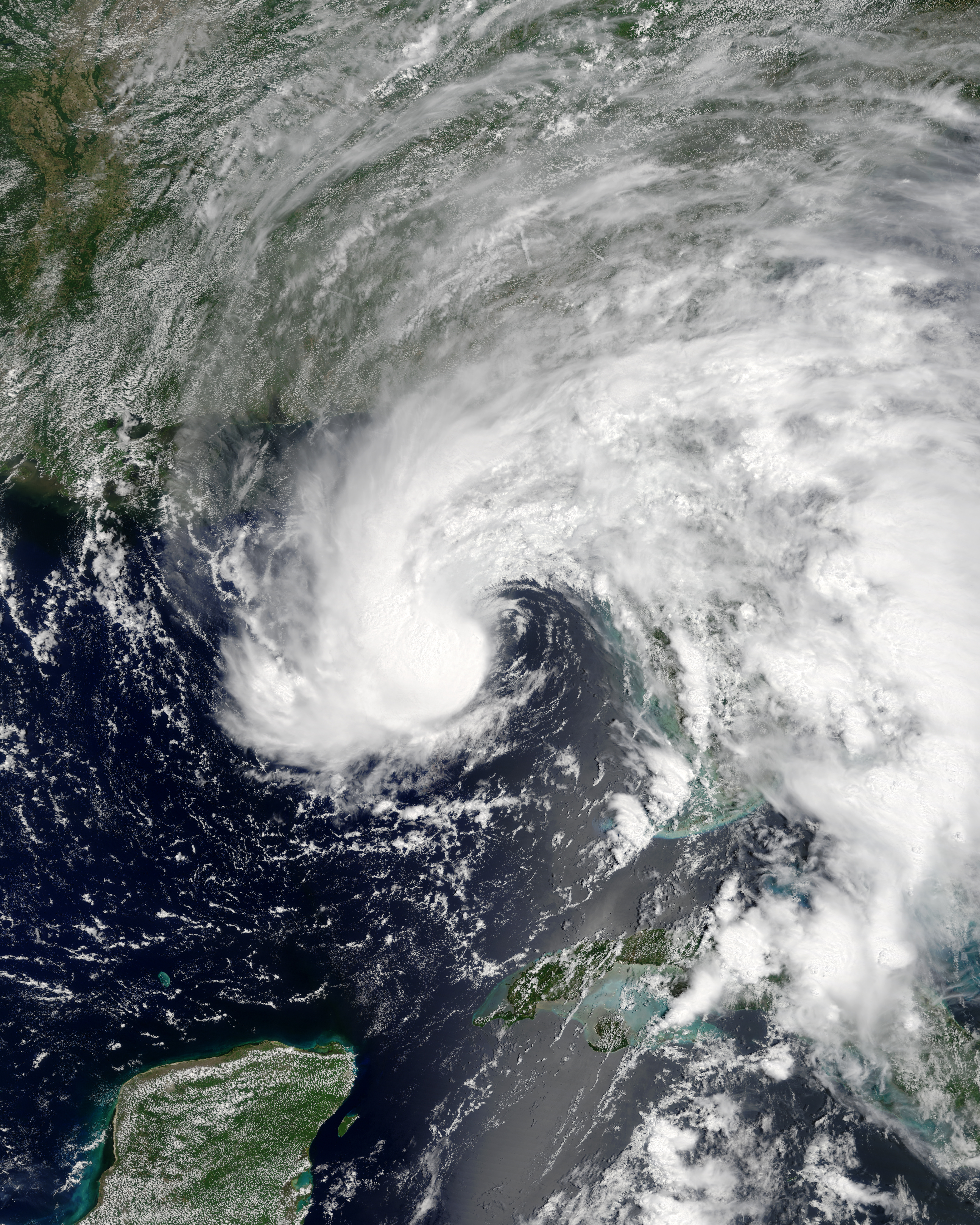 Subtropical Storm Alberto off the west coast of Florida on May 27, 2018